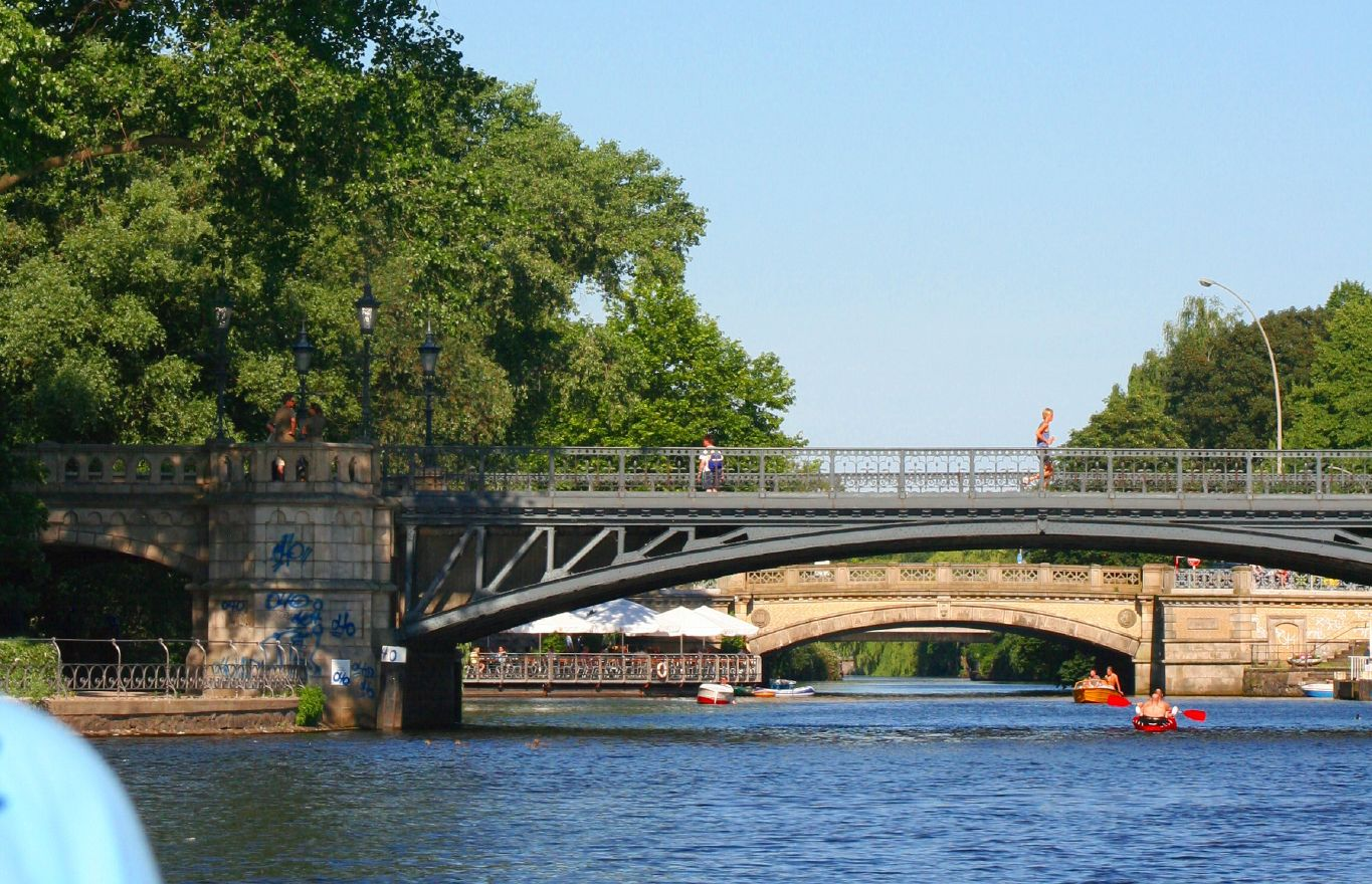 view from Außenalster into Mundsburg Canal, the lower reaches of the river Wandse, through Schwanenwik Bridge